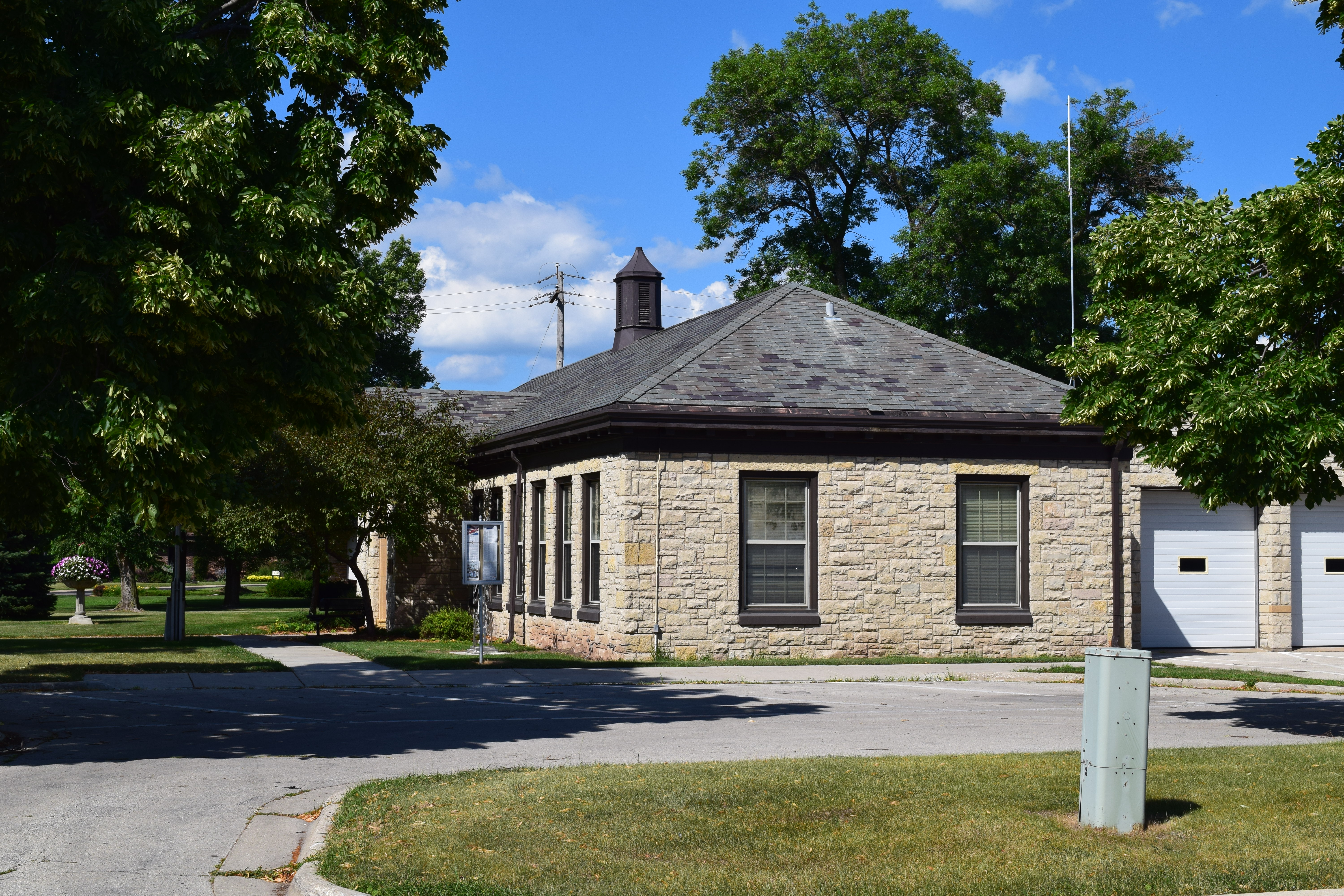 View of the Allouez Water Department and Town Hall in Allouez, Wisconsin from the side.